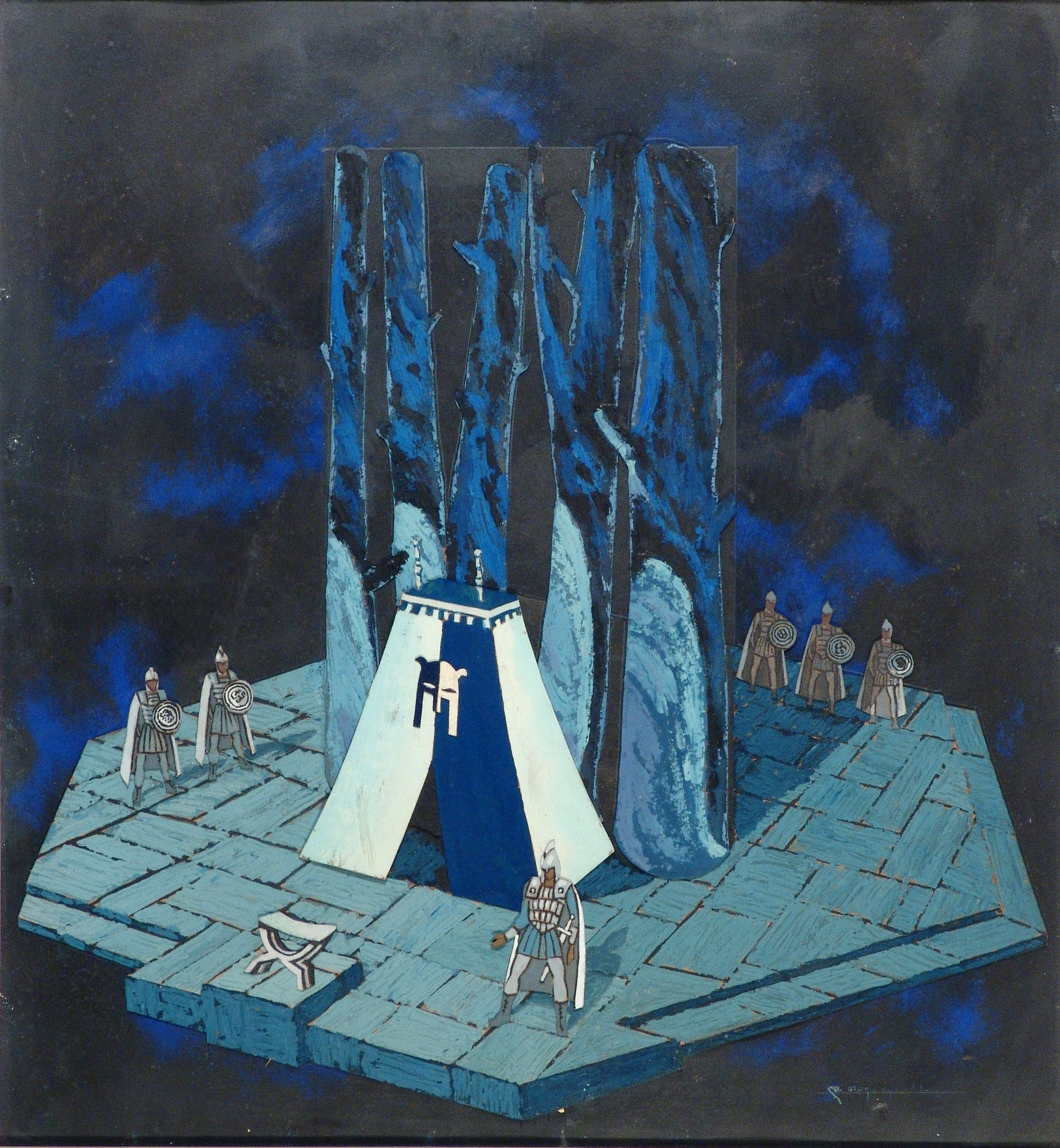 Author: Dimitri Tavadze; Year: 1974; Shakespeare – Julius Caesar